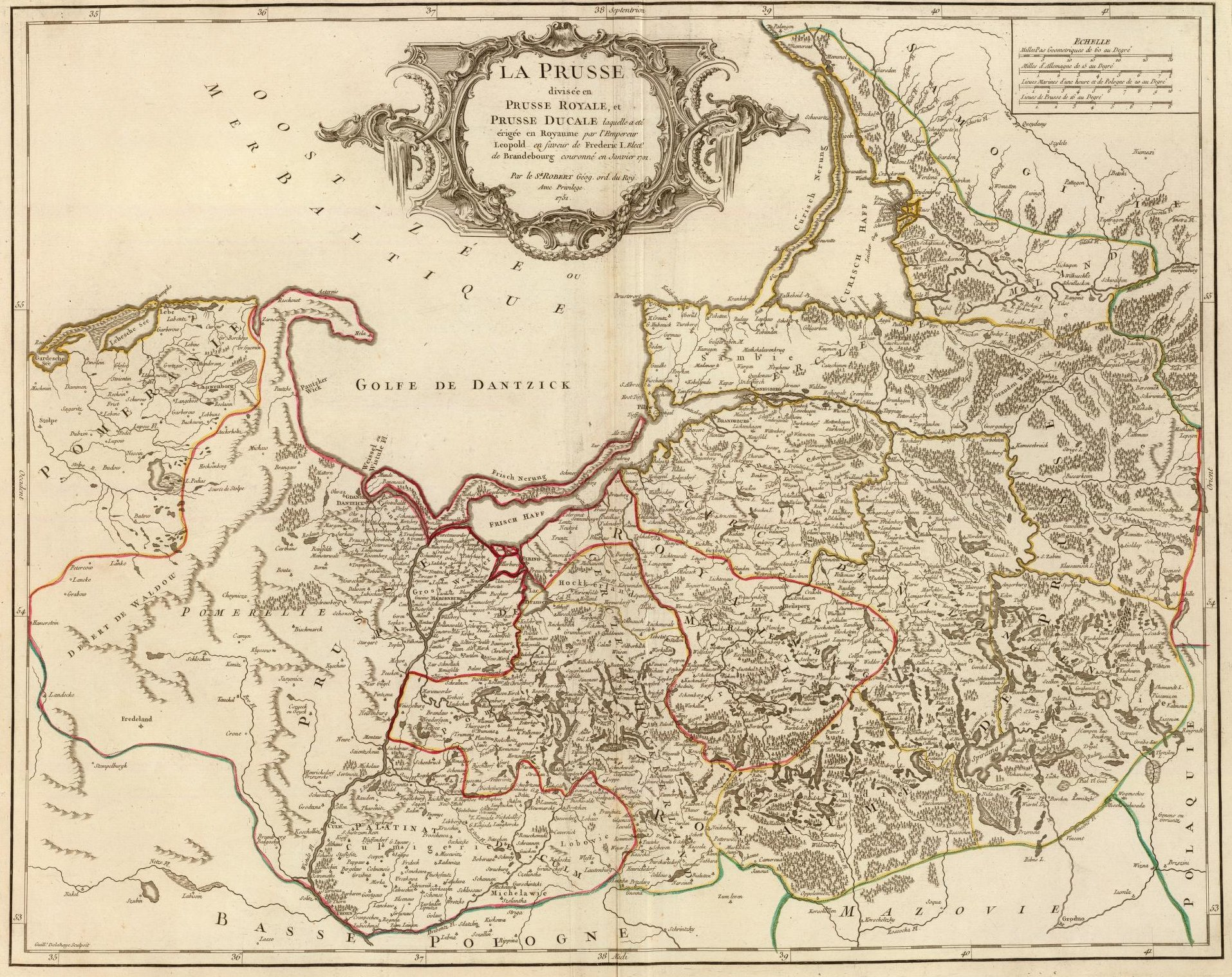 Prussia in 1751, as Royal Prussia and Kingdom of Prussia (formerly Ducal Prussia) - “La Prusse divisee en Prusse Royale, et Prusse Ducale laquelle a ete erigee en Royaume par l'Empereur Leopold en favour de Frederic I. Elec? de Brandebourg couronee en Janvier 1701. Par le Sr. Robert Geog. ord. du Roy. Avec Privilege. 1751. Guill? Delahaye, sculpsit.”